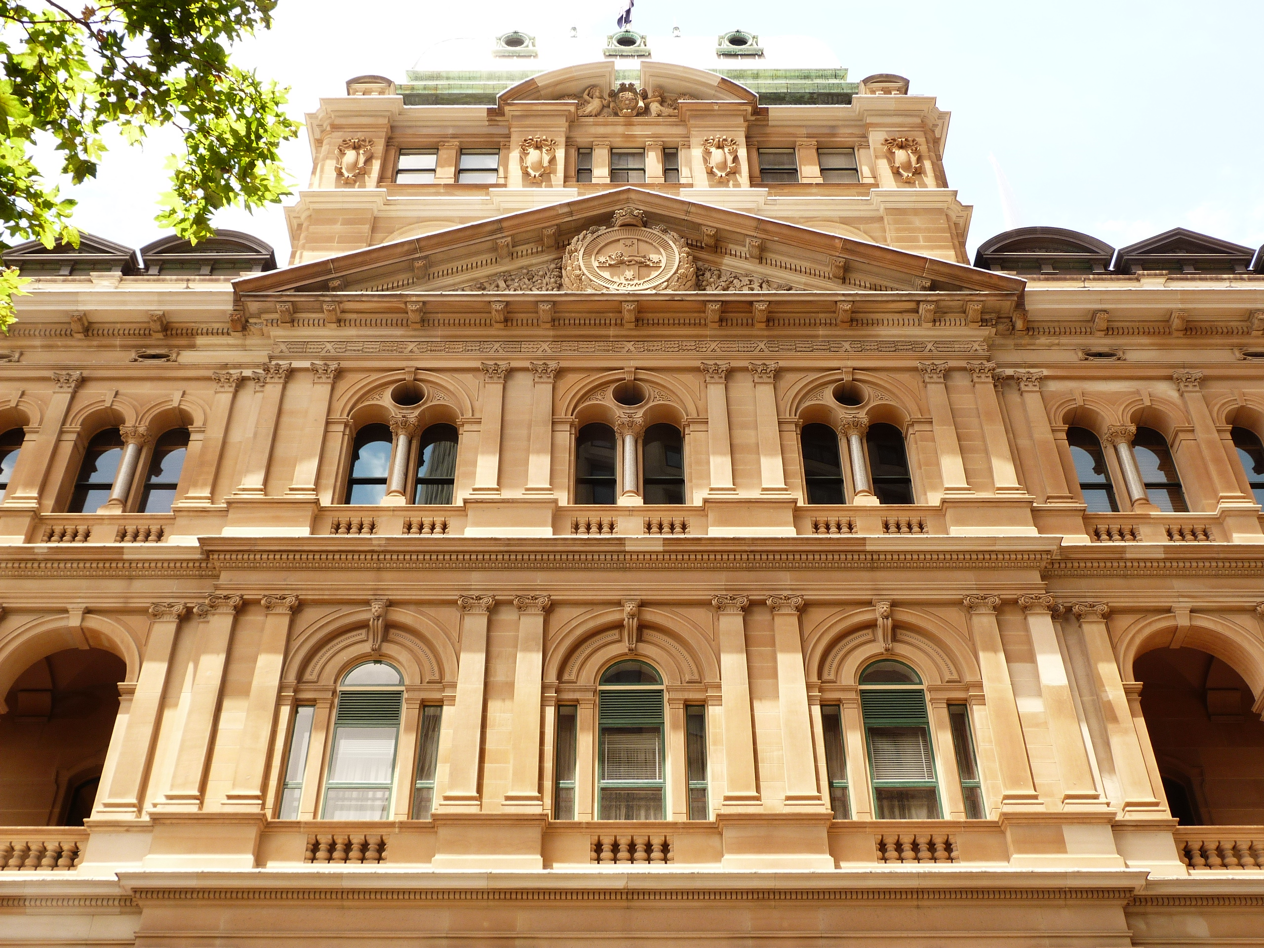 chief secretarys building, sydney